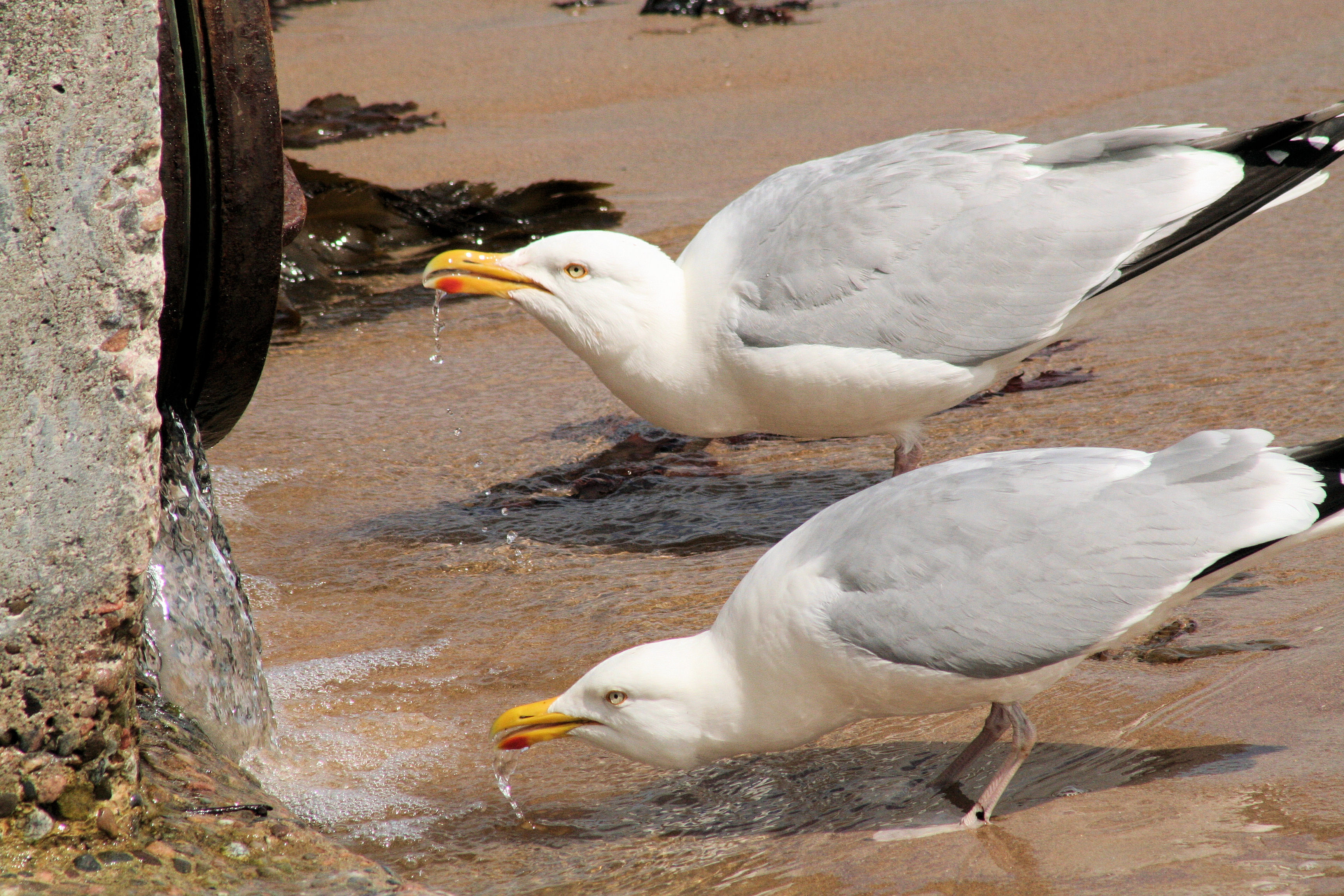 Following on from my previous image - once the gulls have filled their beaks with water they will throw their heads back and swallow. As you can see there is quite a lot of water that falls out of their beaks before they swallow!